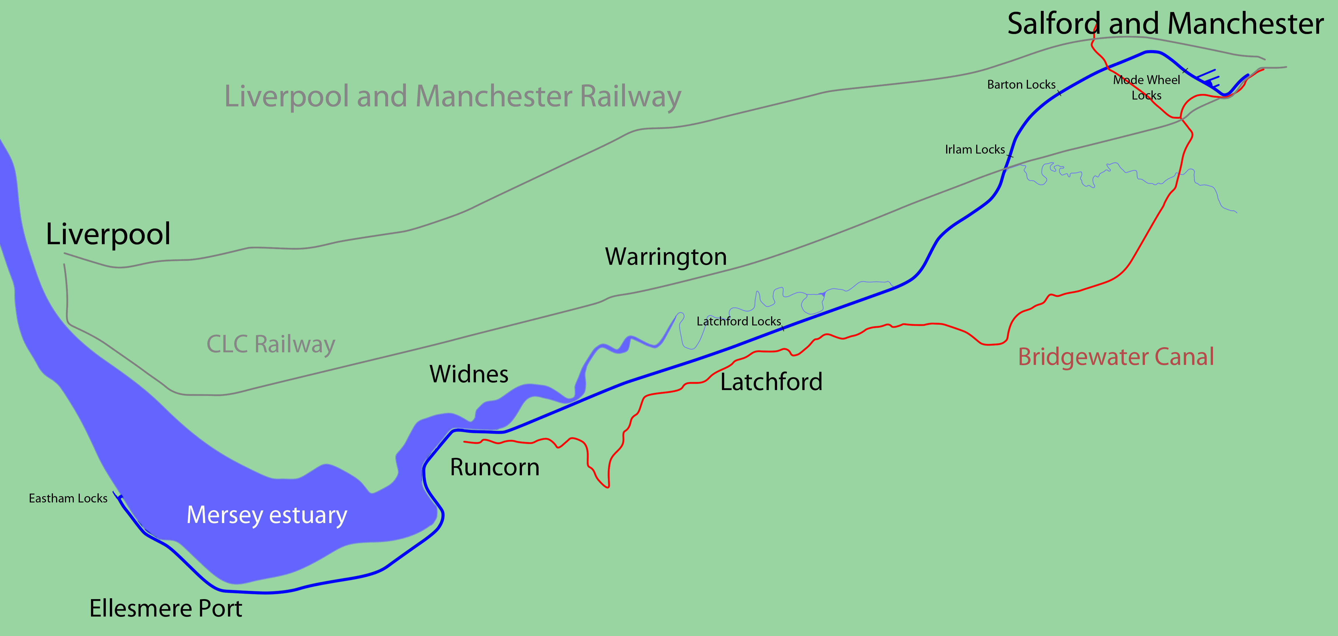 Map of the Manchester Ship Canal